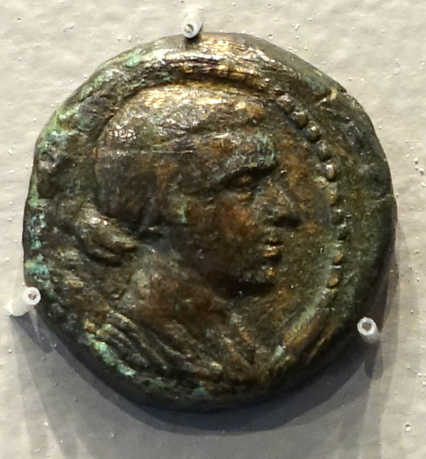 Exhibit in the Arthur M. Sackler Museum, Harvard University, Cambridge, Massachusetts, USA. This artwork is in the public domain because the artist died more than 70 years ago.